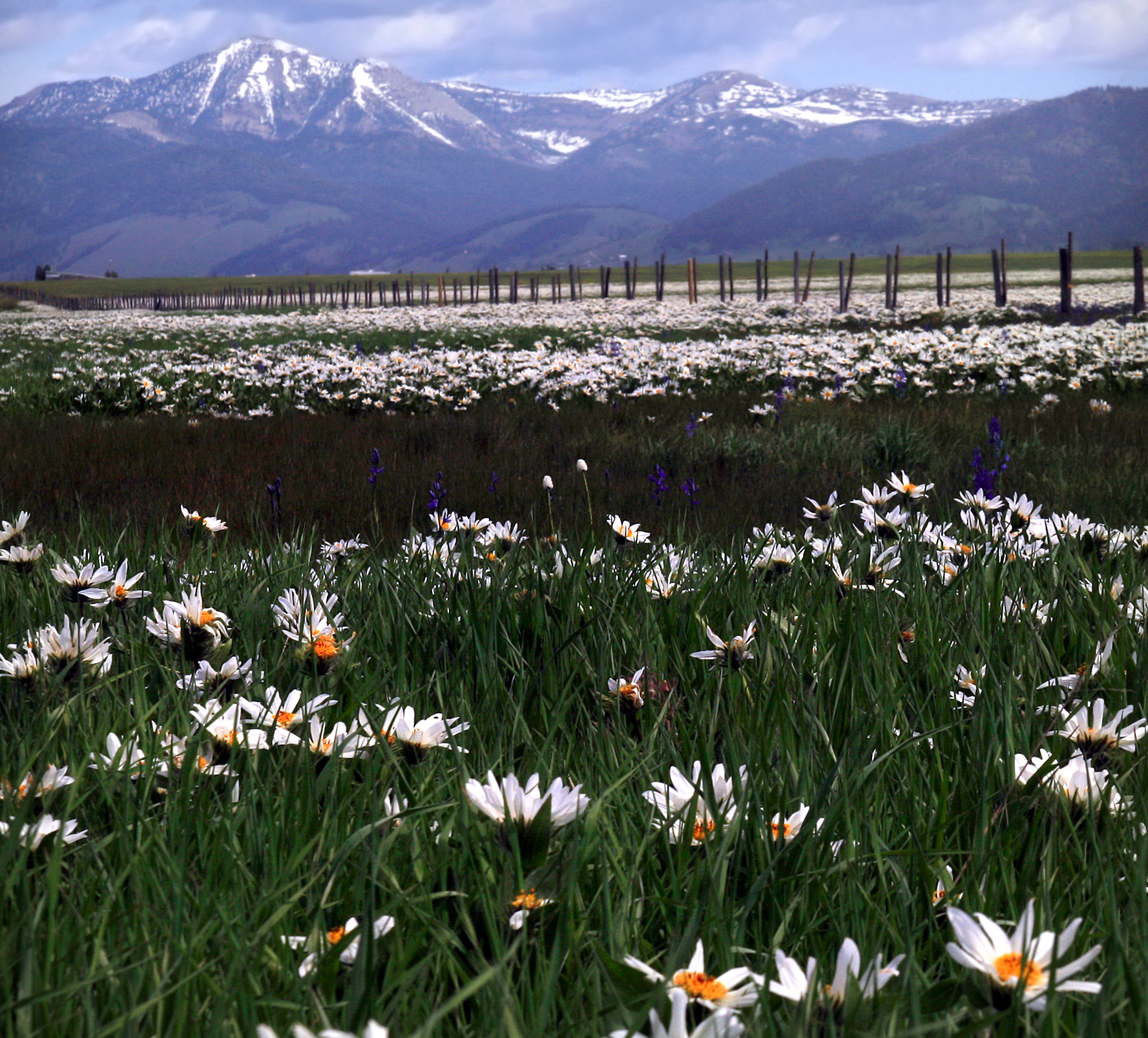 Wyethia helianthoides Nutt. in West Yellowstone